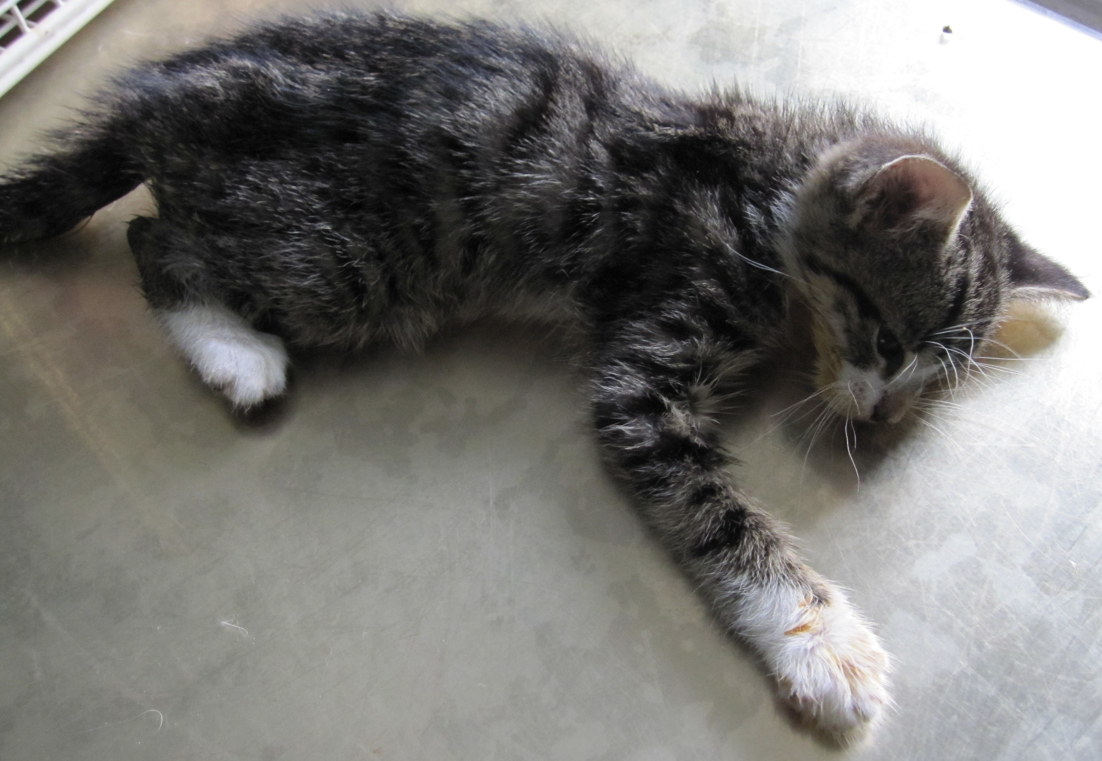 kitten with massive feline roundworm infestation